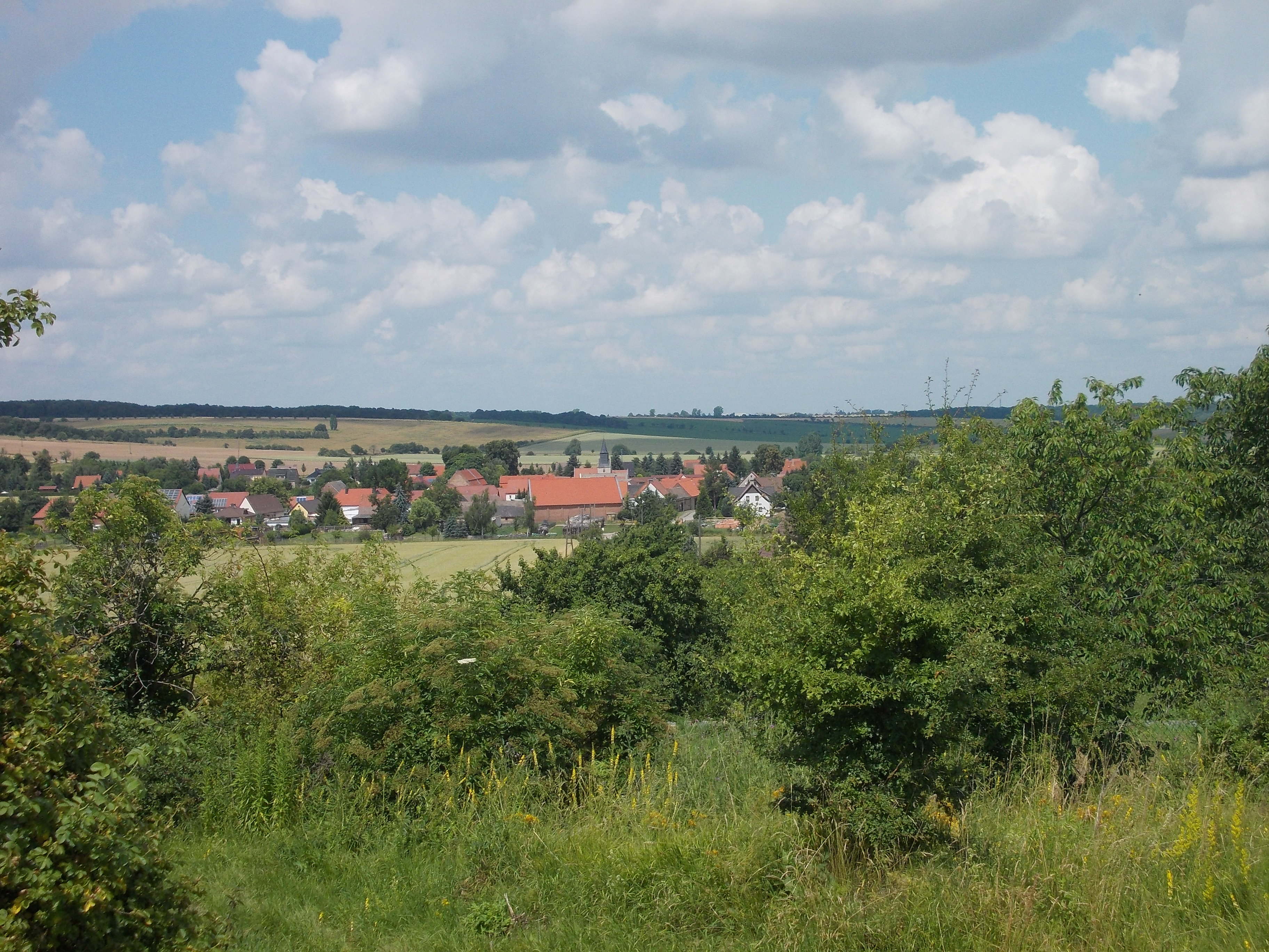 The village of Zeuchfeld (Freyburg/Unstrut, district: Burgenlandkreis, Saxony-Anhalt) from the south